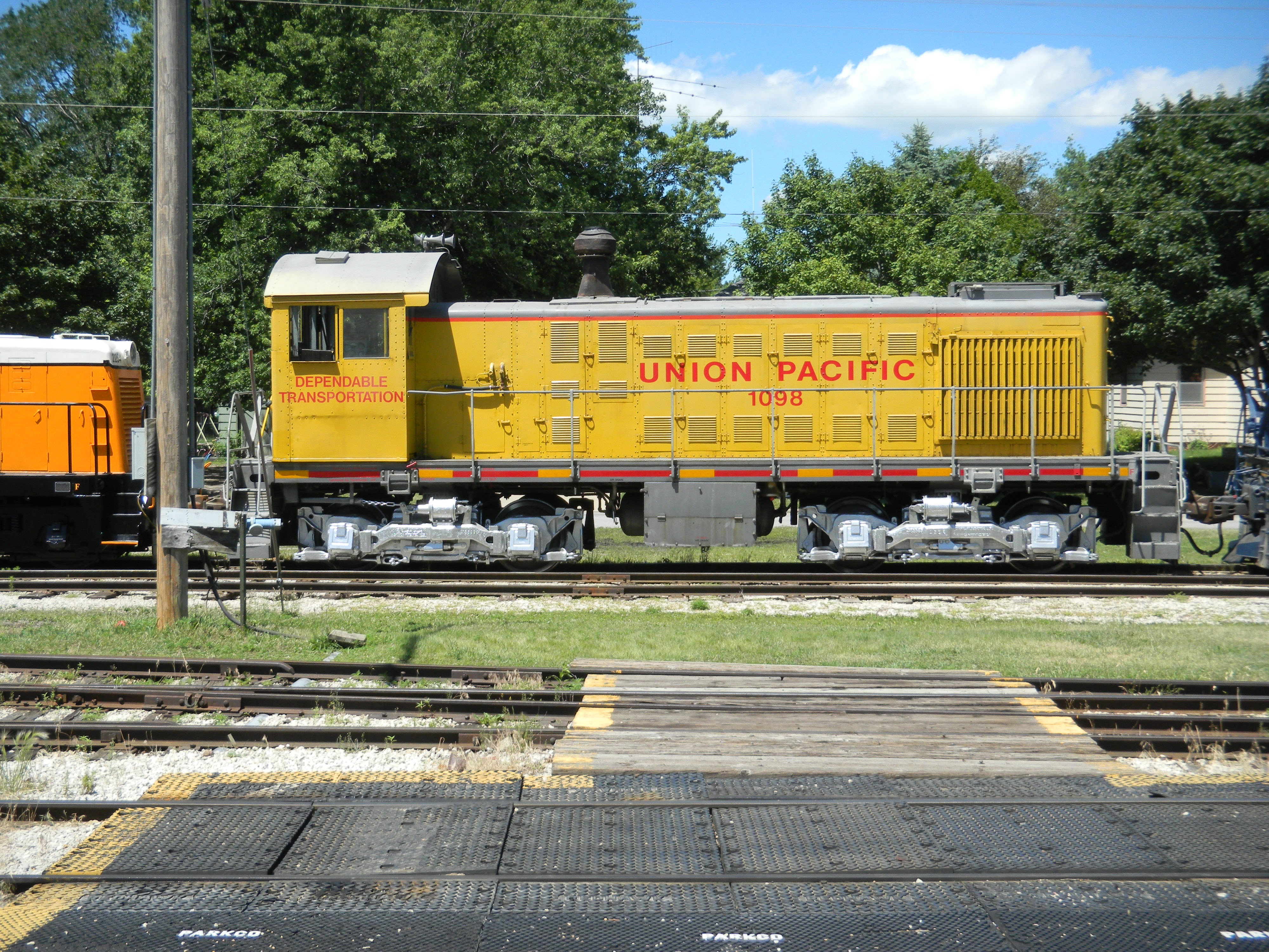 Boone and Scenic Valley Railroad ALCO S-2 painted in UP colors, although never owned by the latter.